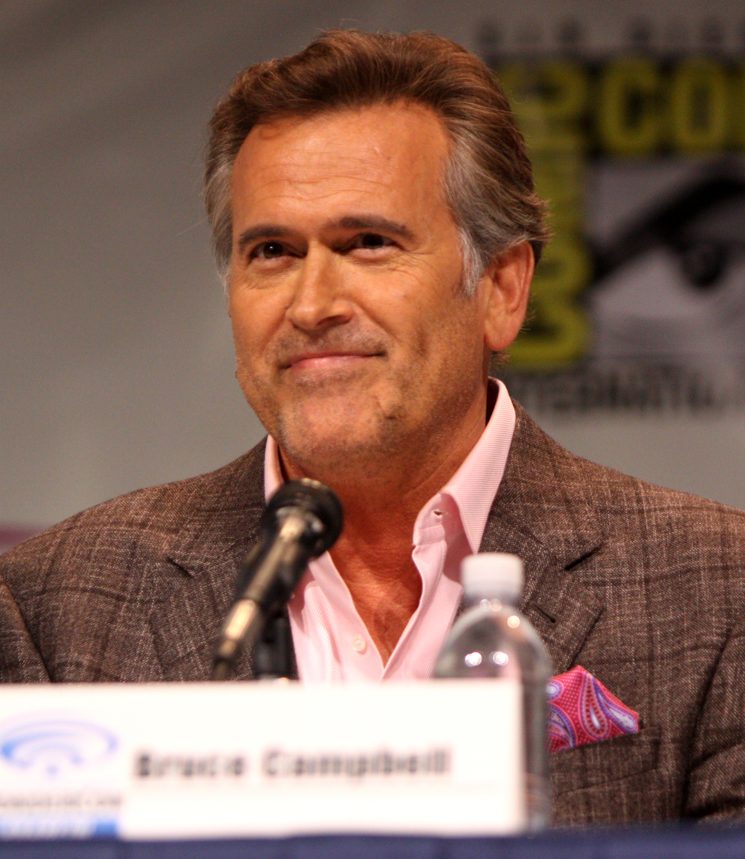 Bruce Campbell speaking at the 2013 WonderCon in Anaheim, California on March 30, 2013.